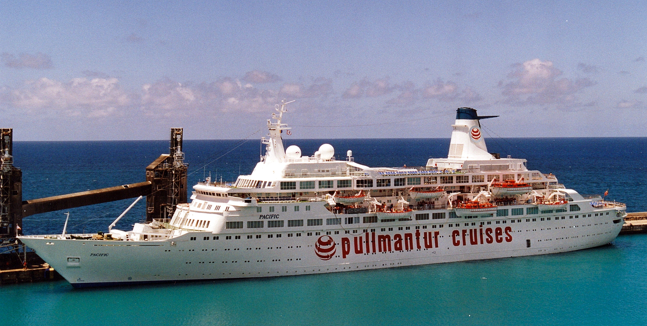 The cruise ship Pacific at Fort-de-France on April 1, 2004.